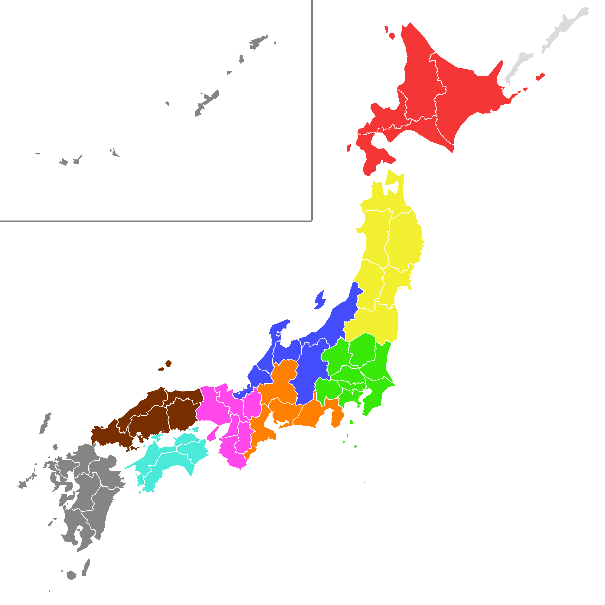 Map of Japanese regions according to JFA: Hokkaidō Tōhoku Kantō Hokushin'etsu Tōkai Kansai Chūgoku Shikoku Kyūshū The regions are further divided into prefectures or blocks in case of Hokkaidō. [TO BE FIXED] Block division of Hokkaidō is changed since 2012 season.